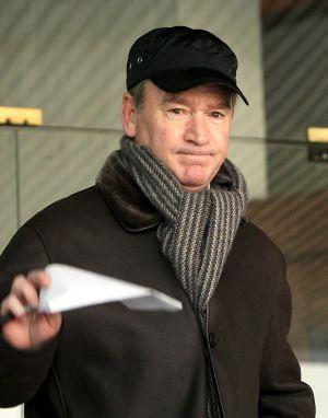 Javier Clemente at Bilbao Airport